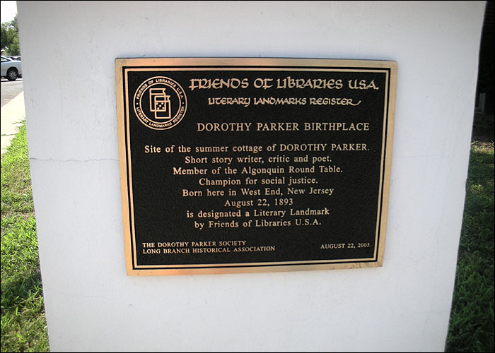 Birthplace of author Dorothy Parker, 732 Ocean Avenue, West End, Long Branch, New Jersey.